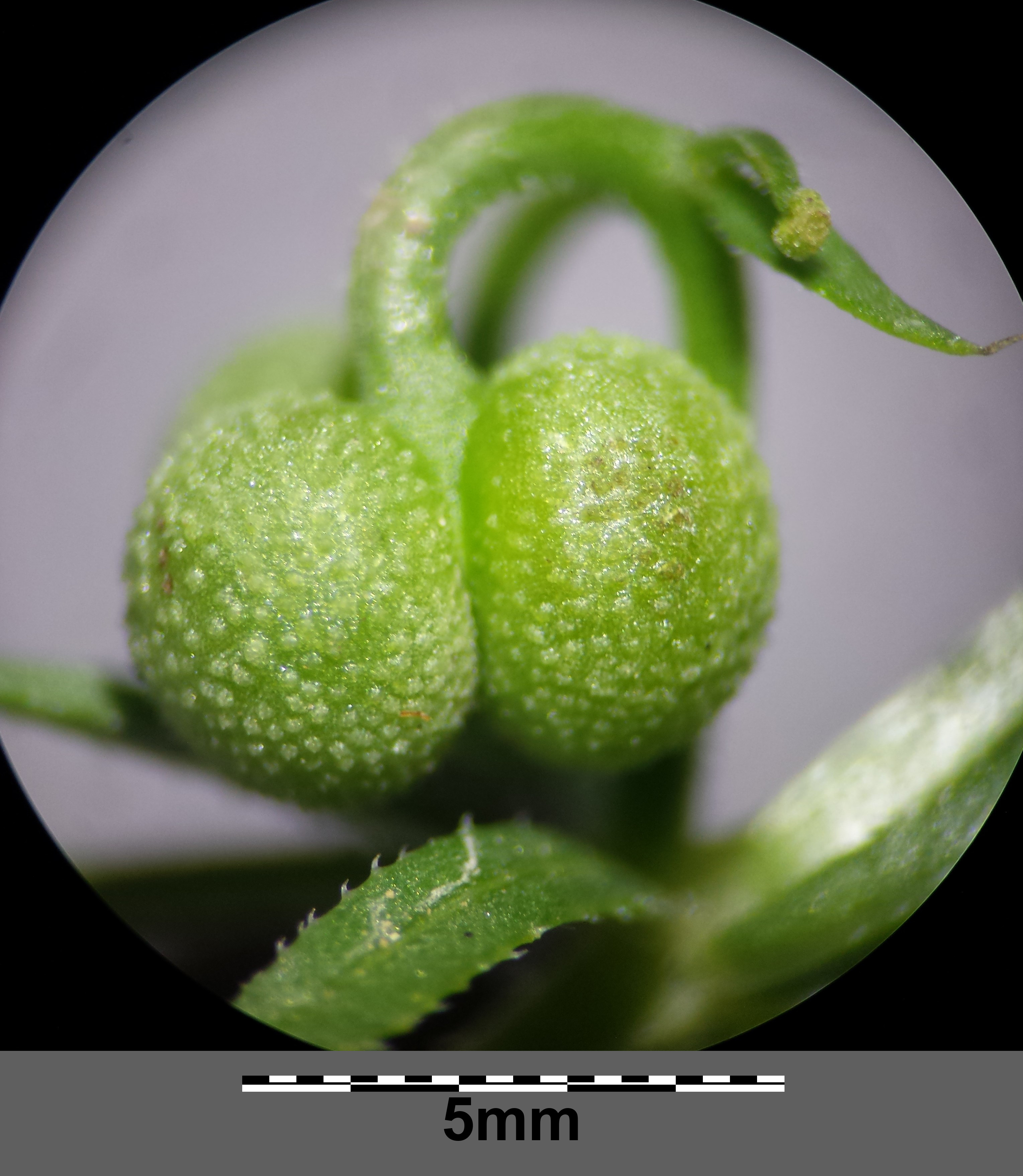 Verrucose fruit Taxonym: Galium tricornutum ss Fischer et al. EfÖLS 2008 ISBN 978-3-85474-187-9 Location: Dernberg, Nappersdorf-Kammersdorf, district Hollabrunn, Lower Austria - ca. 270 m ü. A. Habitat: field